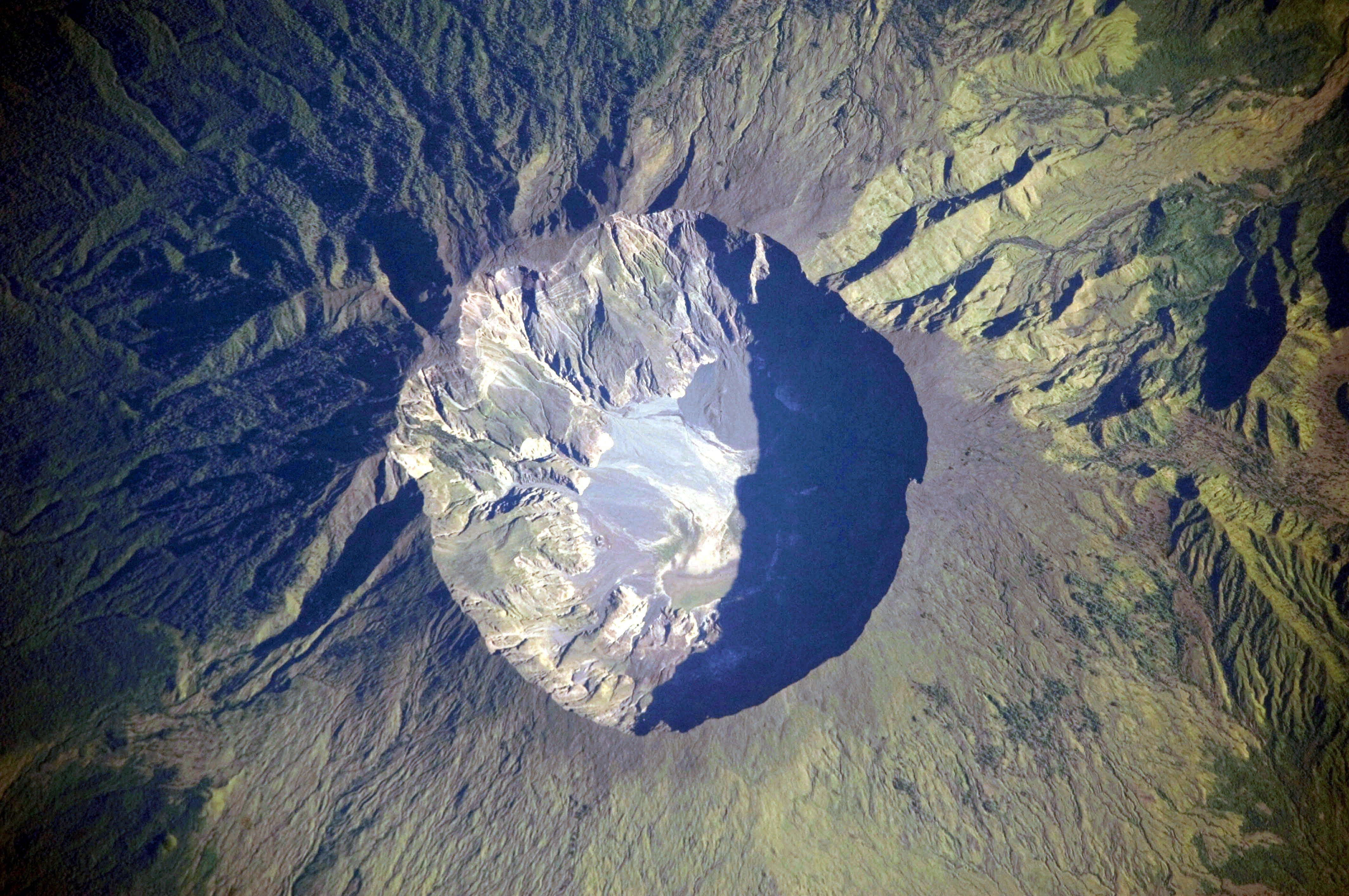 This detailed astronaut photograph depicts the summit caldera of the volcano. The huge caldera—6 kilometers in diameter and 1,100 meters deep—formed when Tambora’s estimated 4,000-meter-high peak was removed, and the magma chamber below emptied during the 1815 eruption. Today the crater floor is occupied by an ephemeral freshwater lake, recent sedimentary deposits, and minor lava flows and domes emplaced during the nineteenth and twentieth centuries. Layered tephra deposits are visible along the north-western crater rim. Active fumaroles, or steam vents, still exist in the caldera.